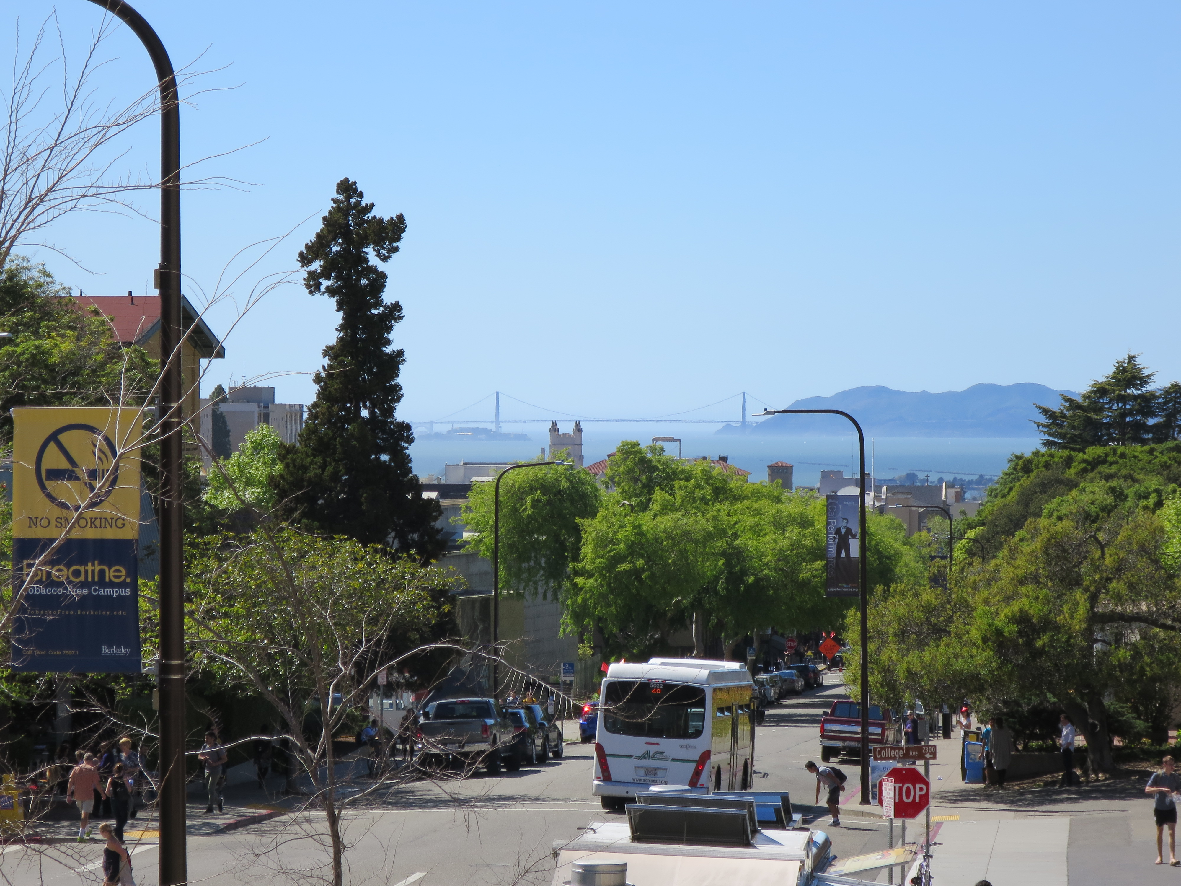 View of Golden Gate Bridge from Boalt Hall, Berkeley